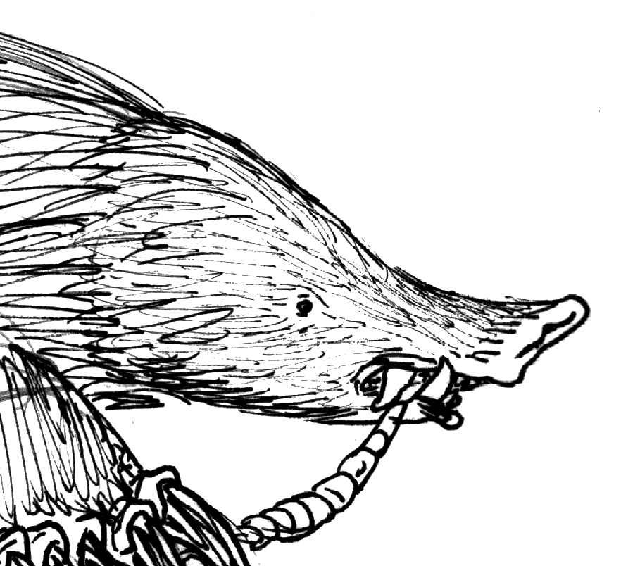 Reconstruction of the mysterious mammal, Necrolestes patagonensis, of Early Miocene Patagonia, often thought to be a marsupial, as a mole-like animal.